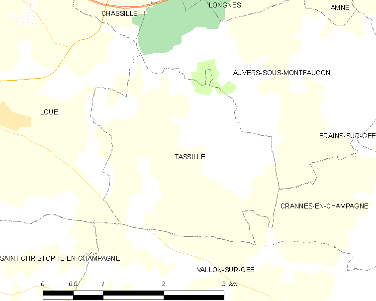 Map of French municipality